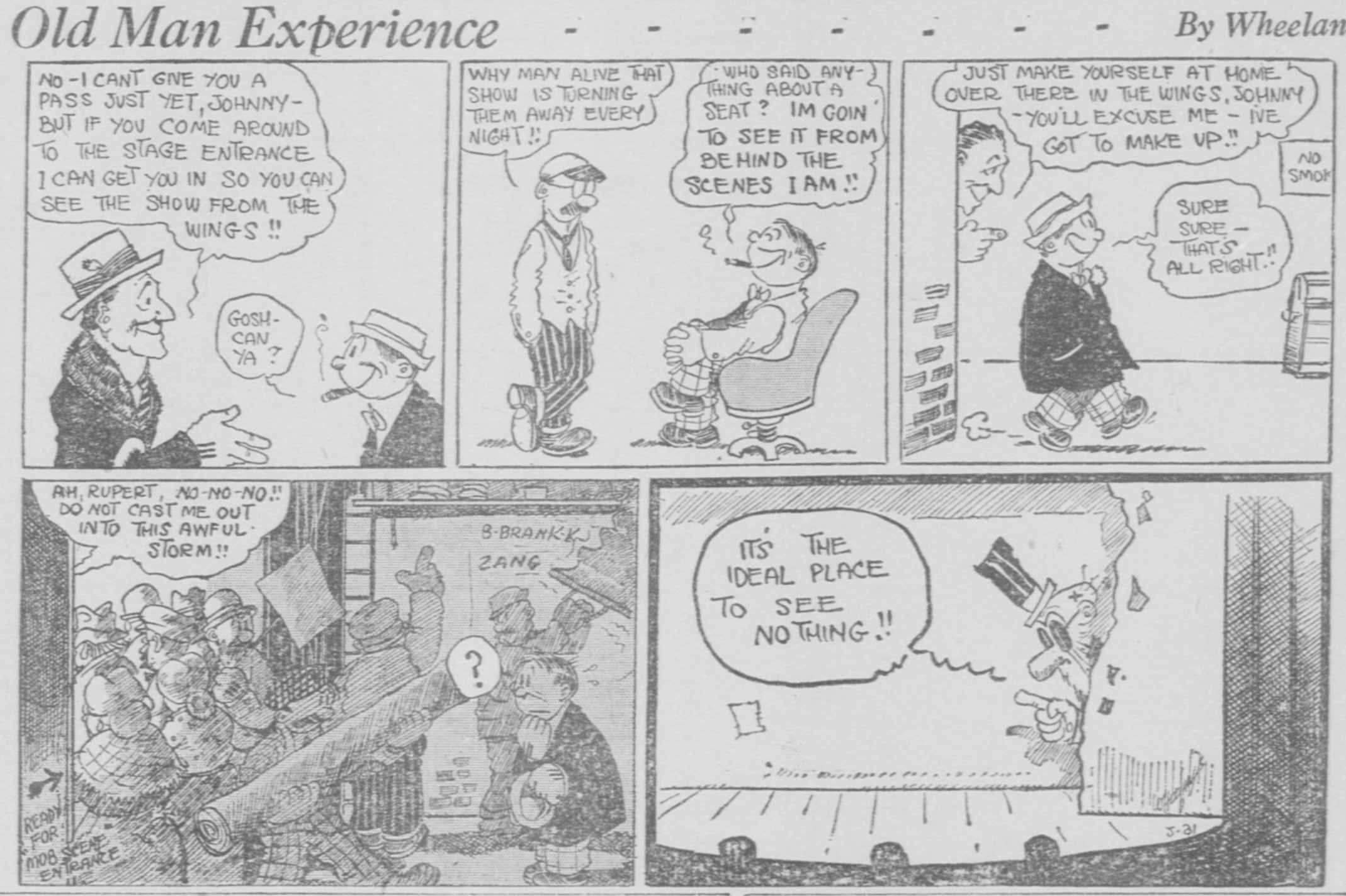 installment of Ed Wheelan's comic strip Old Man Experience. Here, an actor arranges for his friend to watch a sold-out play from just offstage - but, as Old Man Experience points out, this is a terrible vantage point from which to watch a play. The text in this image should be transcribed and included in the description on this page. See also Transcription . The Google OCR tool may be of use in transcribing images.